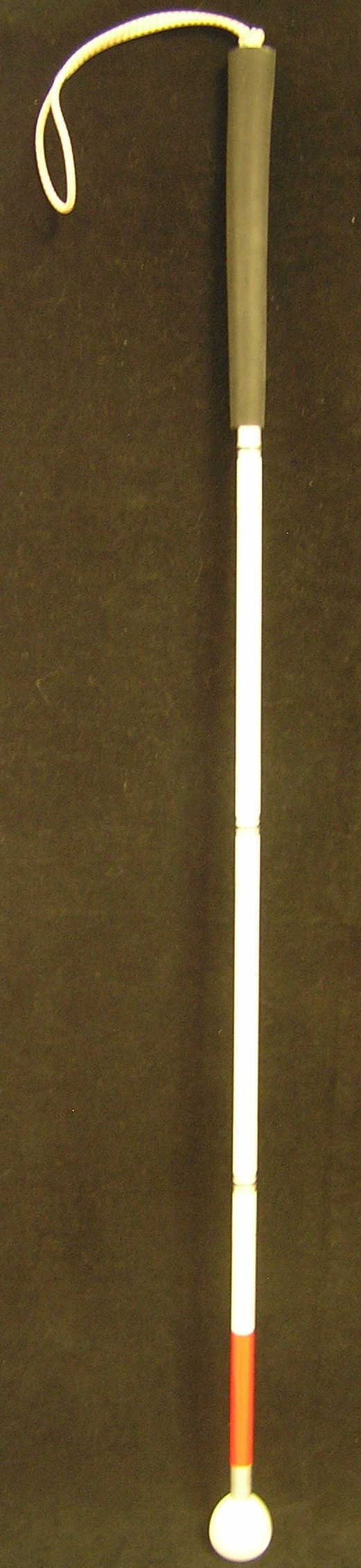 An unfolded long cane. The long cane is the primary mobility tool for blind and vision impaired people. Long canes are often foldable to save space.